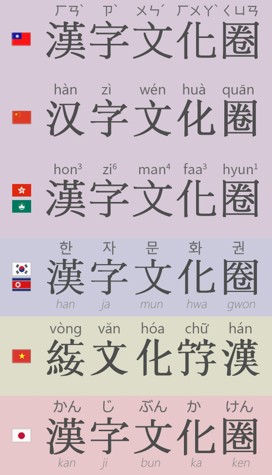 The ways of saying and writing of "Sinosphere" in major languages of Sinosphere.